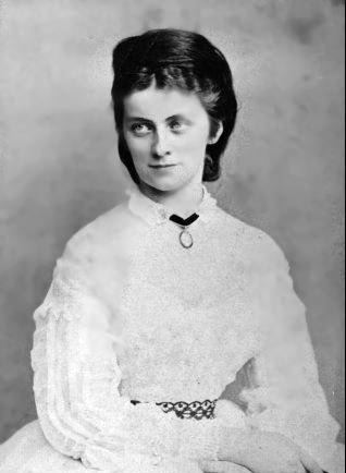 Sophie of Bavaria, Duchess of Alençon